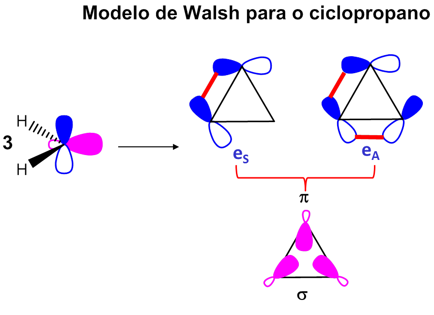 Modelo de Walsh para o ciclopropano